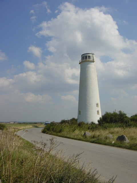 Leasowe Lighthouse stands on Leasowe Common and is a well known landmark on Wirral. It is built of brick, several feet thick and is solid at the base, tapering as it goes up to a height of one hundred and one feet. There are seven floors which can be reached by a cast iron staircase of one hundred and thirty steps. Over the entrance there is a tablet bearing the inscription M.W.G. 1763, this is commemorating the then mayor of Liverpool, William Gregson. Two lighthouses were erected on the coast of Leasowe in 1763 a 'lower light' on the shore and an 'upper light' on the site of the present building. The theory was, that the approaching ships master had only to line up the two lights to achieve a safe entrance to the Rock Channel and the port of Liverpool. The 'lower light' was troubled by erosion and the building collapsed. The present lighthouse at Leasowe was used as the lower light when the previous lower lighthouse collapsed and the upper light was built on Bidston Hill in 1771, three miles away. The light at Leasowe were lit for the last time on July 14th 1908, and the light at Bidston ceased to function in 1913. The lighthouse now houses a Visitor Centre and is the base for the Coastal Rangers.